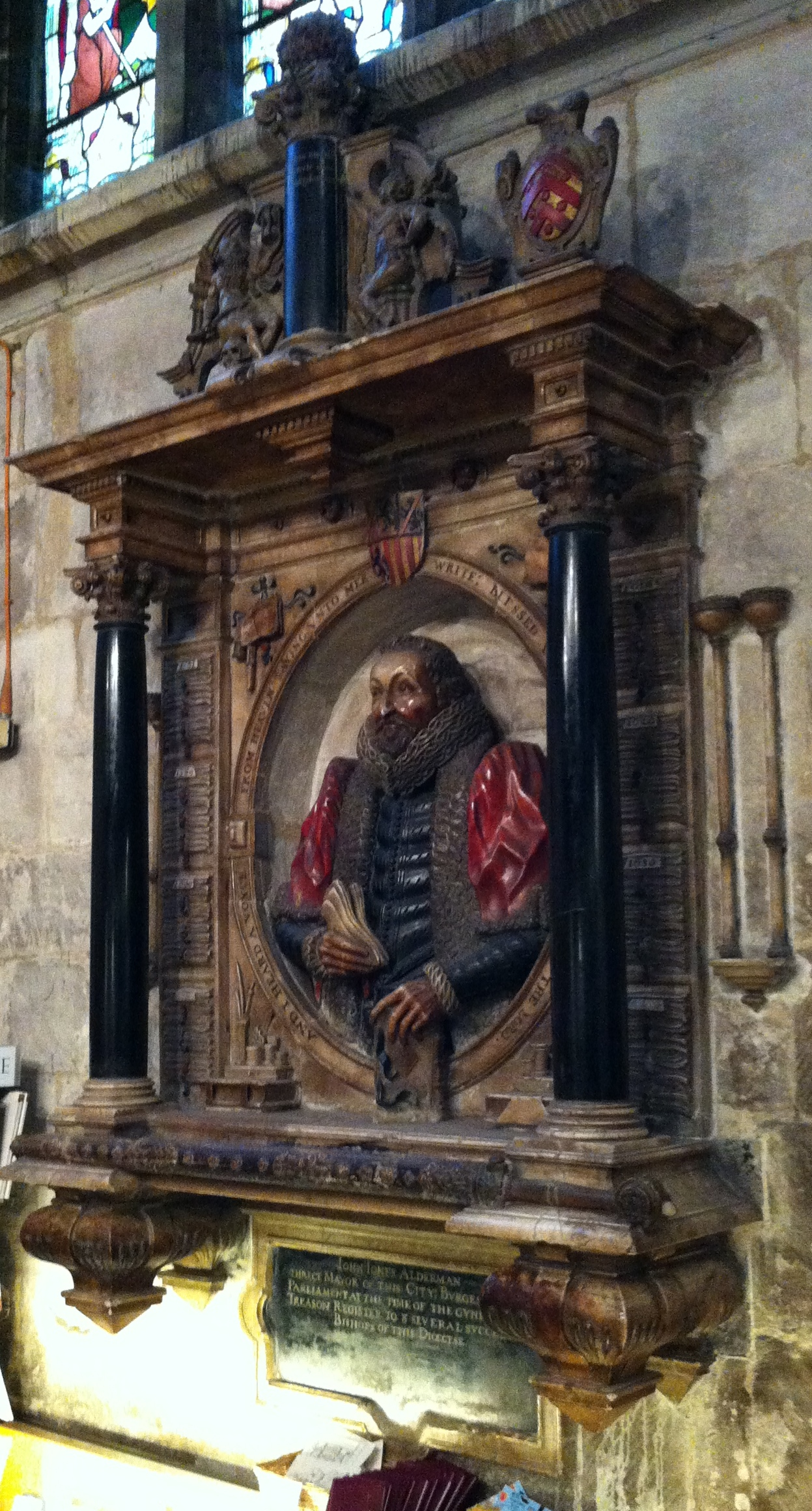 Alderman, Mayor of Gloucester.